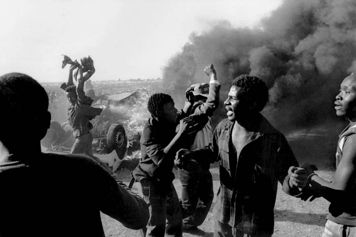 This image was captured during protests against Apartheid in South Africa in the 1980s.